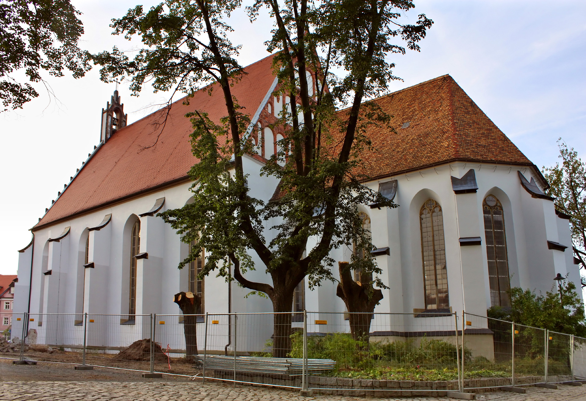 Church of St. Ann in Kamenz in the district Bautzen in Saxony, Germany.